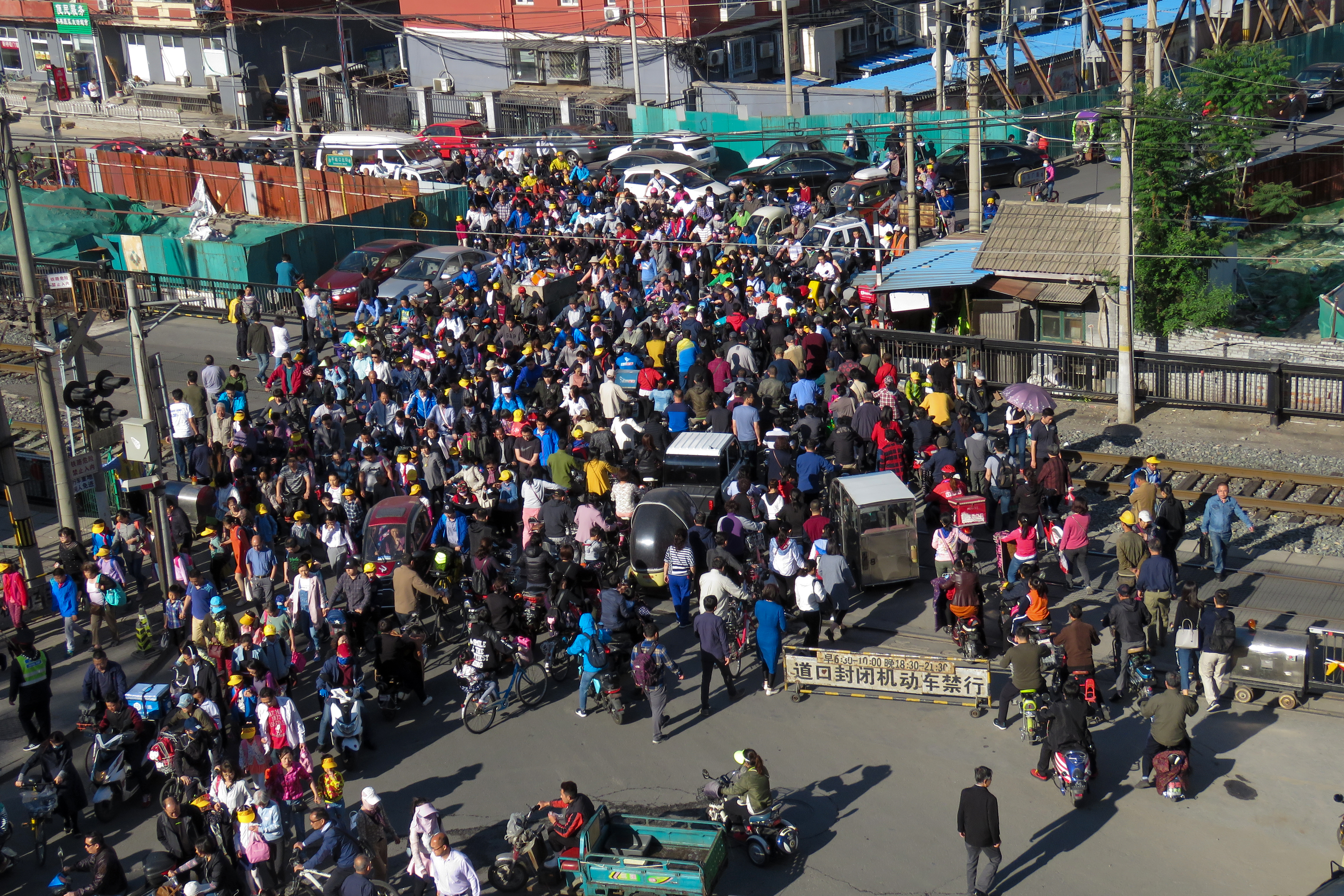 Yes, a "speed contest" is necessary, because no one wants to be late for class.